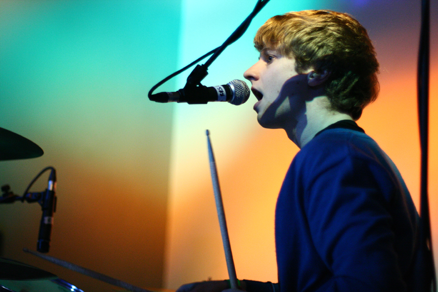 Steven Ansell from english rockgroup blood red shoes performing.